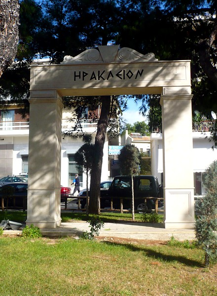 Irakleio gate